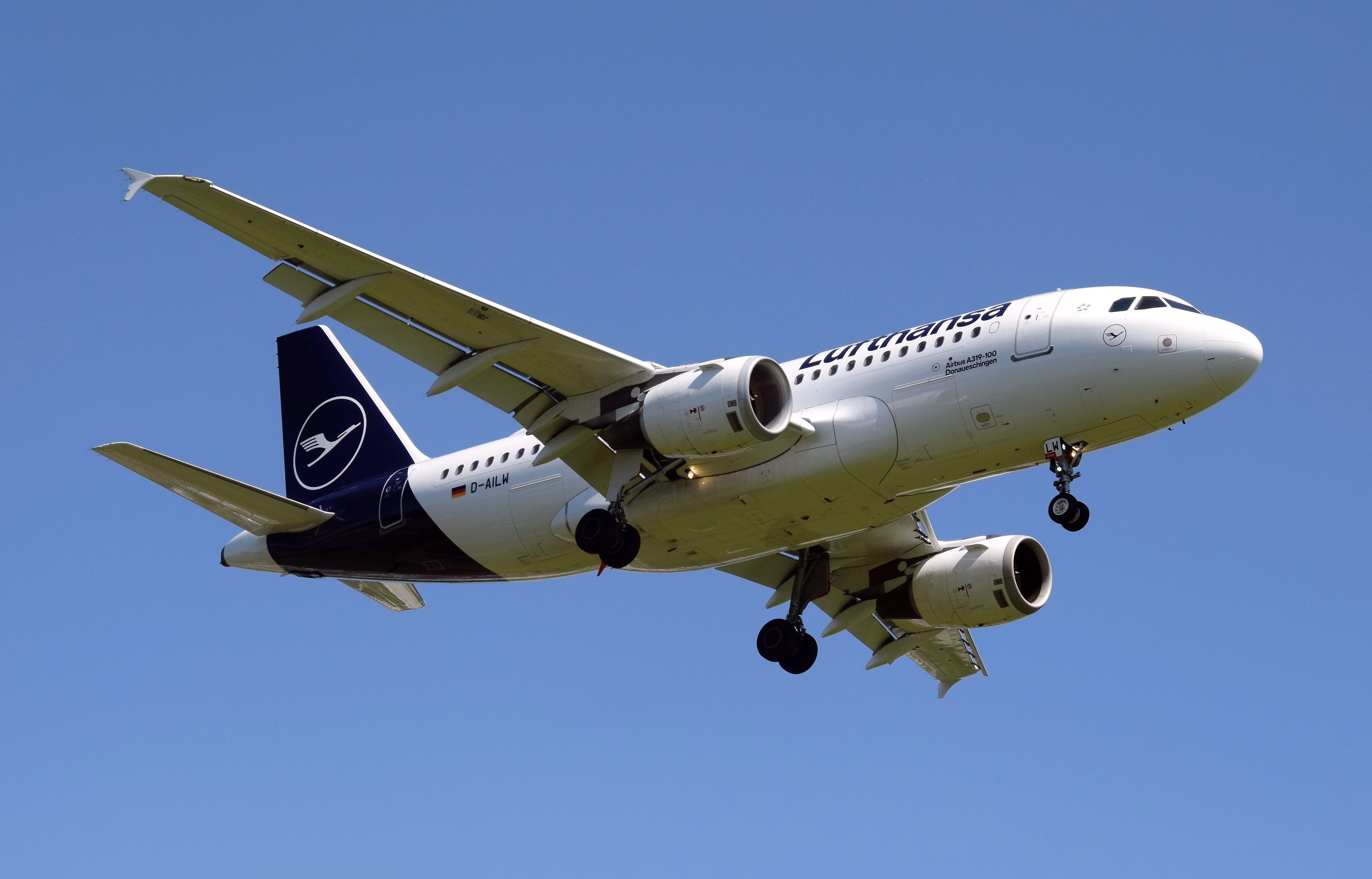 Airbus A319-100 (D-AILW) of Lufthansa arrives at Birmingham Airport, England. Built 1998. In the post-2018 livery.